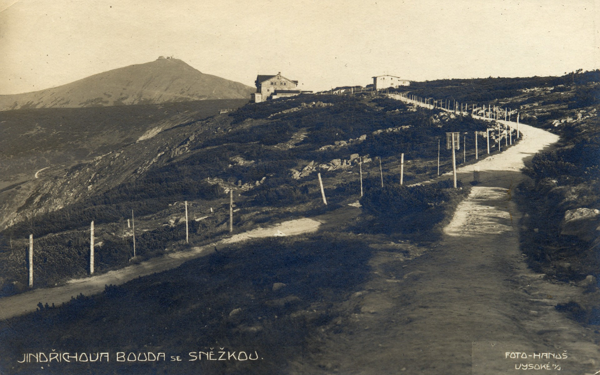 Bouda prince Jindricha